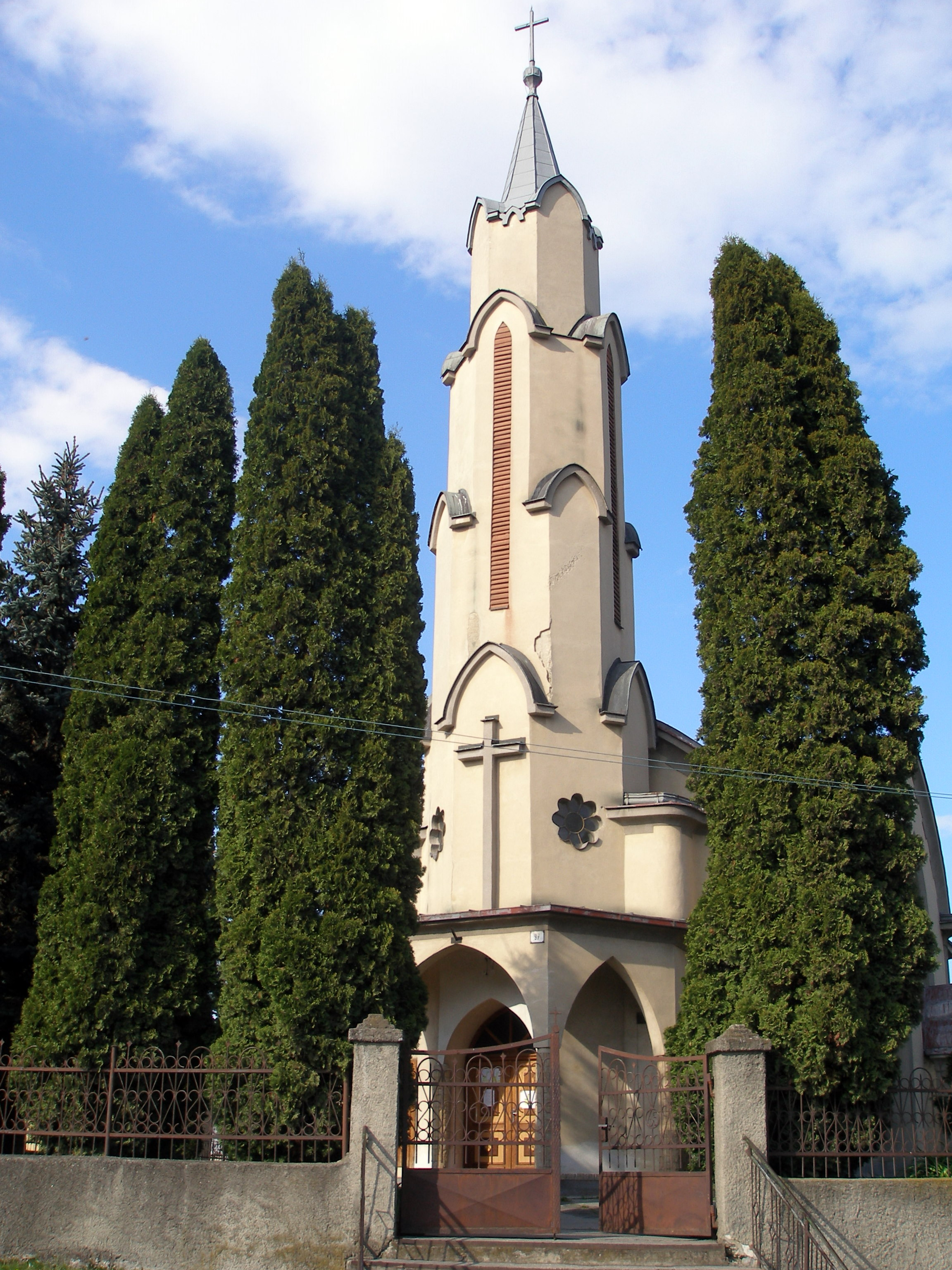 Obec Malý Šariš okres Prešov región Šariš This medium shows the protected monument with the number 707-321/1 (other) in the Slovak Republic.